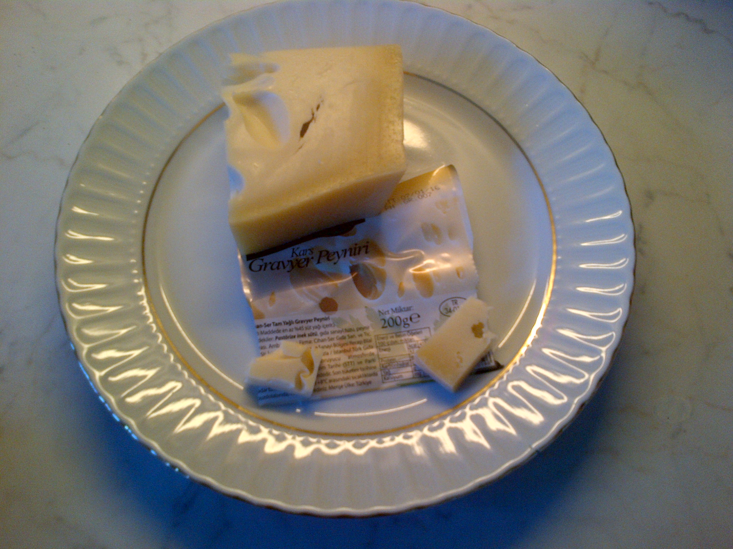 "Kars gravyeri" from Eastern Turkey.